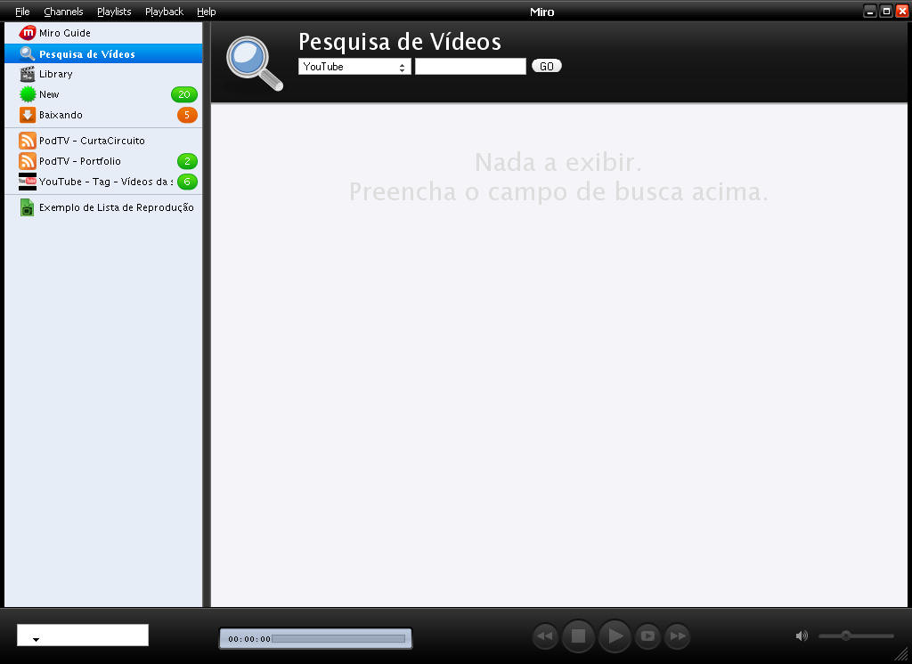 Screenshot of Miro media player